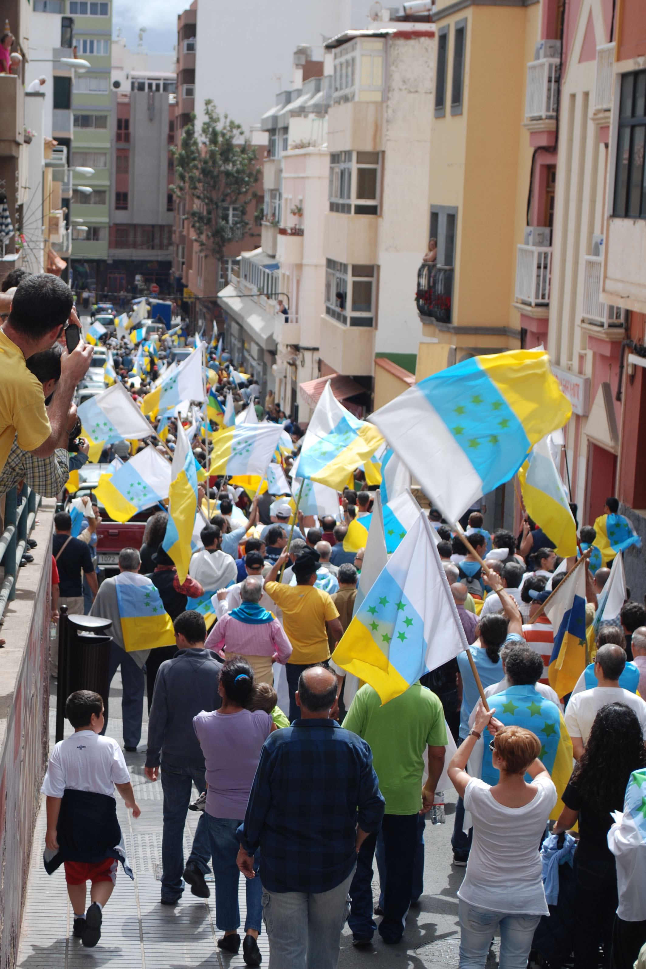 Manifestation in Las Palmas de Gran Canaria (Canary Islands) on 06/03/10.